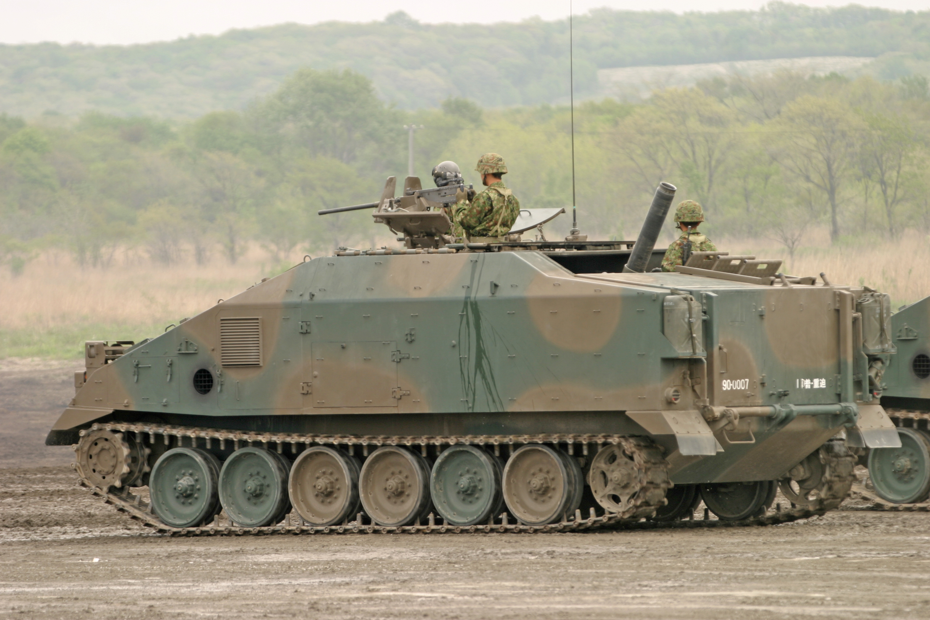 Subject: Type96 120M(SP) of the JGSDF displayed at JGSDF CAMP Higasichitose Source: photo by EarlyBird, taken 2006/6/5